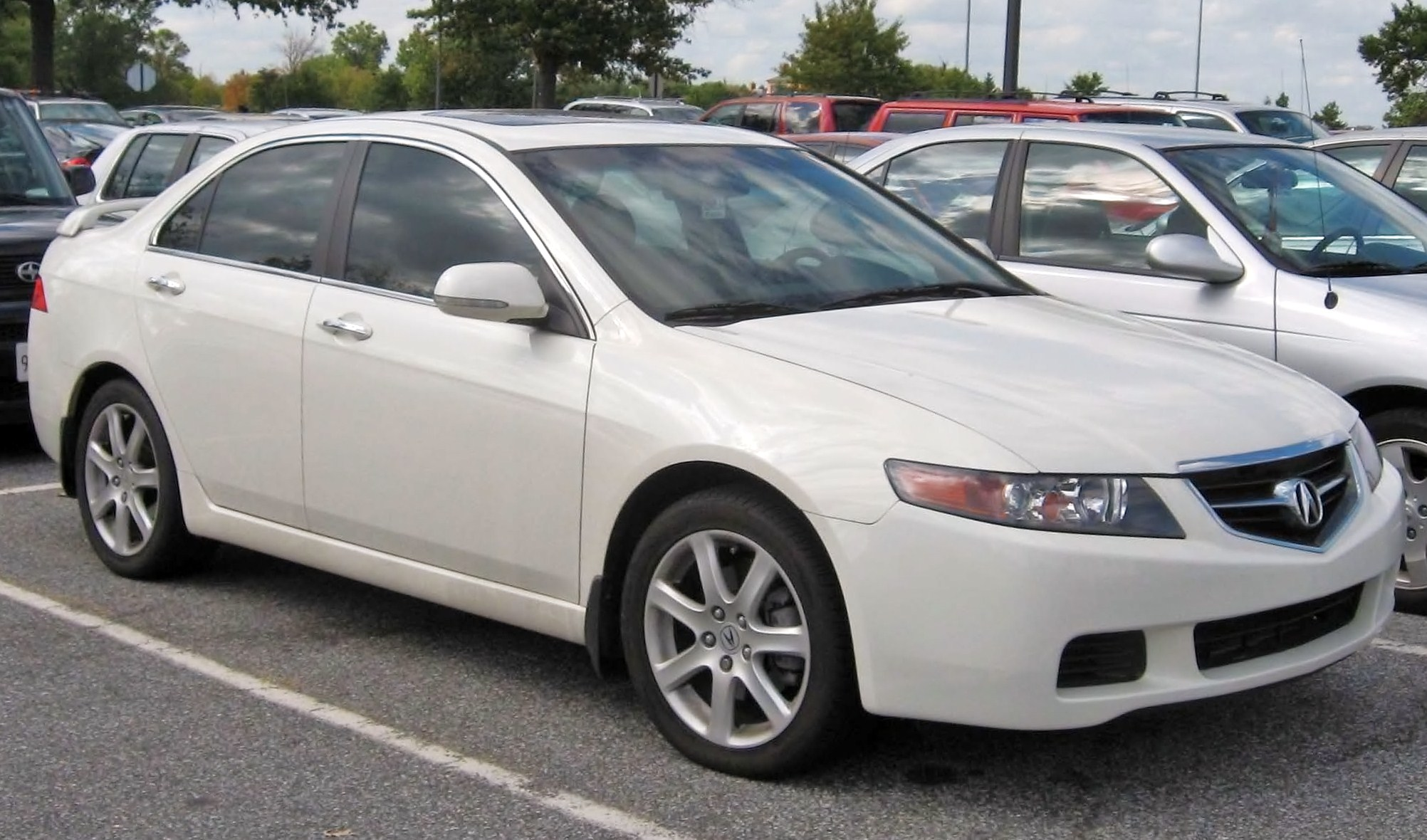 2004-2005 Acura TSX photographed in College Park, Maryland, USA.